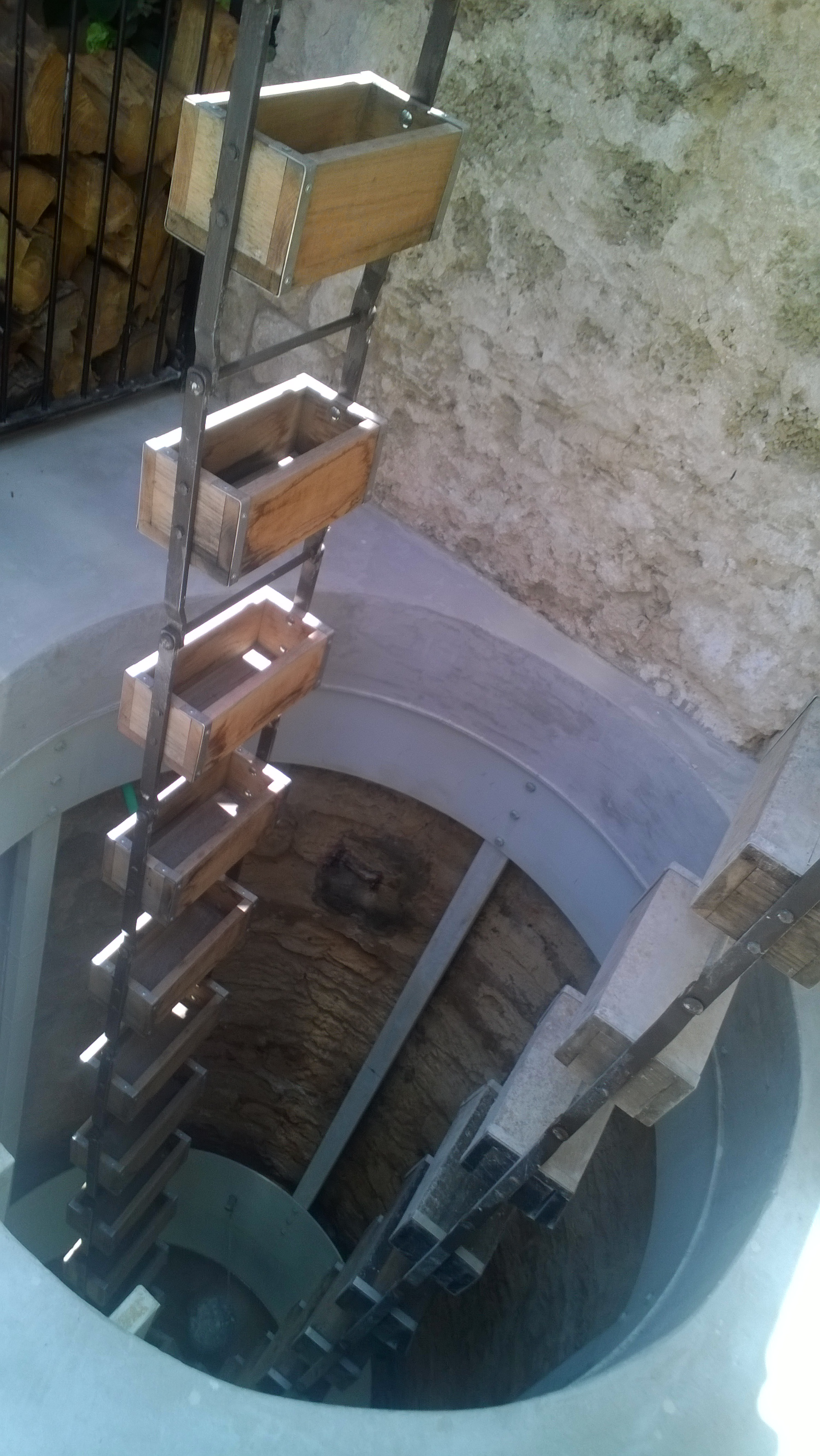 Sarona Tel Aviv